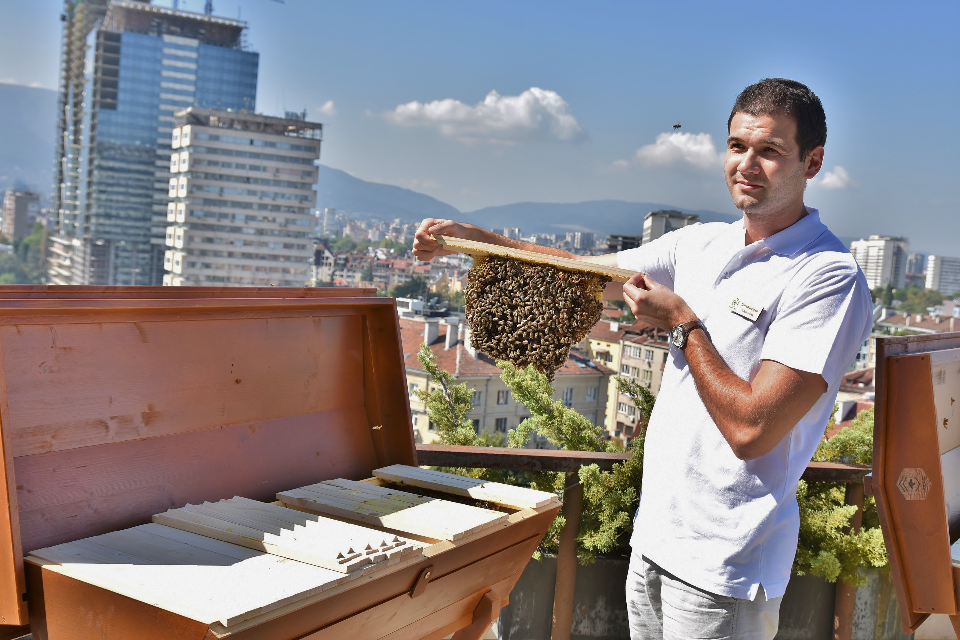 urban bees